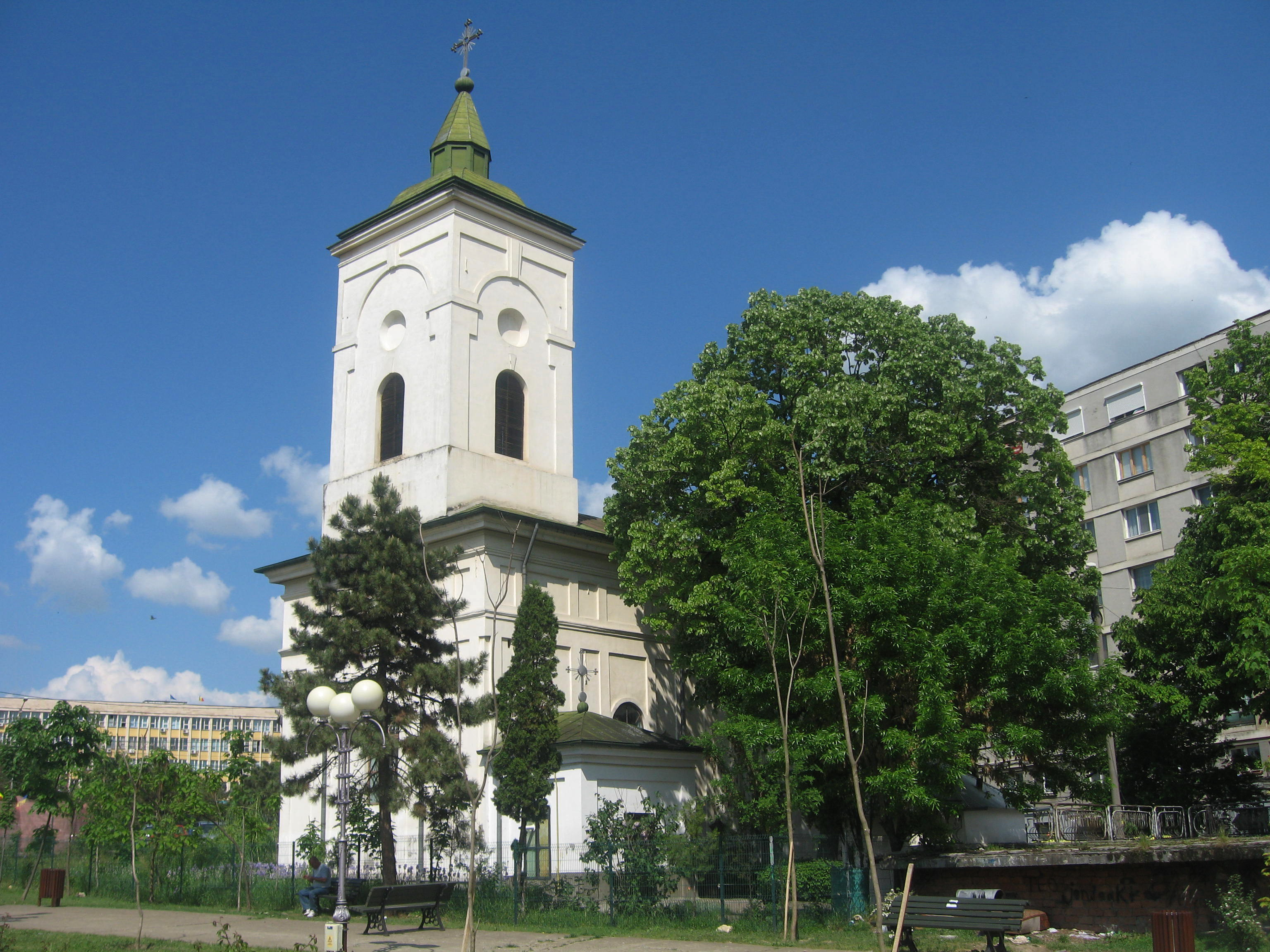 The Church Mitocul maicilor in iaşi